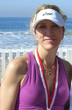 Cropped version of Image:Huffman.jpg, by Maxamegalon2000.